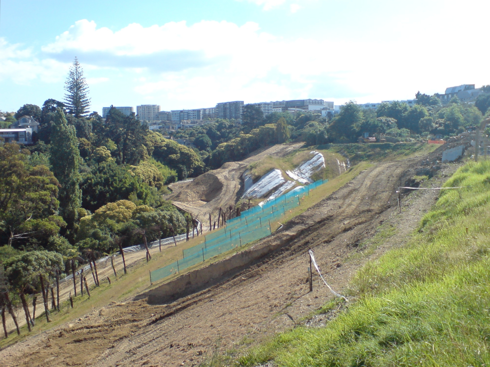 Newmarket Park in Auckland, New Zealand. The Newmarket 'skyline' in the distance. Coordinates approximate.